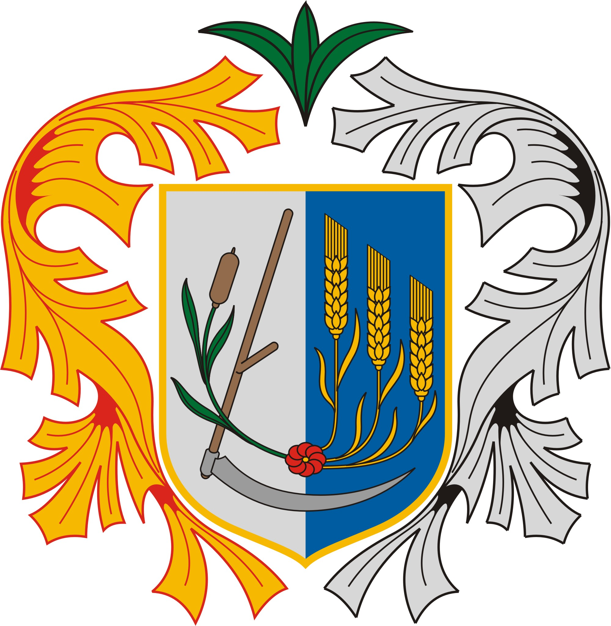 Coat of arms of Méhkerék, Hungary